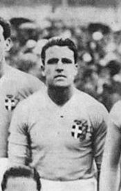 Genoa (Italy), Luigi Ferraris Stadium, December 13, 1936. Italian footballer Piero Pasinati prior the victorius friendly match between Italy and Czechoslovakia (2-0).